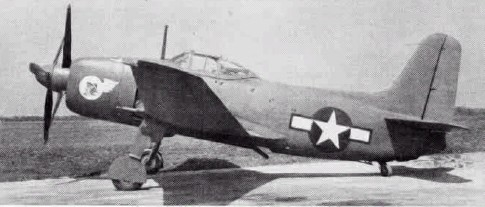 The Curtiss XBTC-2 "Model A", circa 1945. The "Model A" had standard wings and flaps, the "Model B" featured a full span Duplex flap wing with a straight trailing edge and a swept-back leading edge. Both had a 3,000 hp Pratt & Whitney XR-4360-8A equipped with contrarotating propellers.